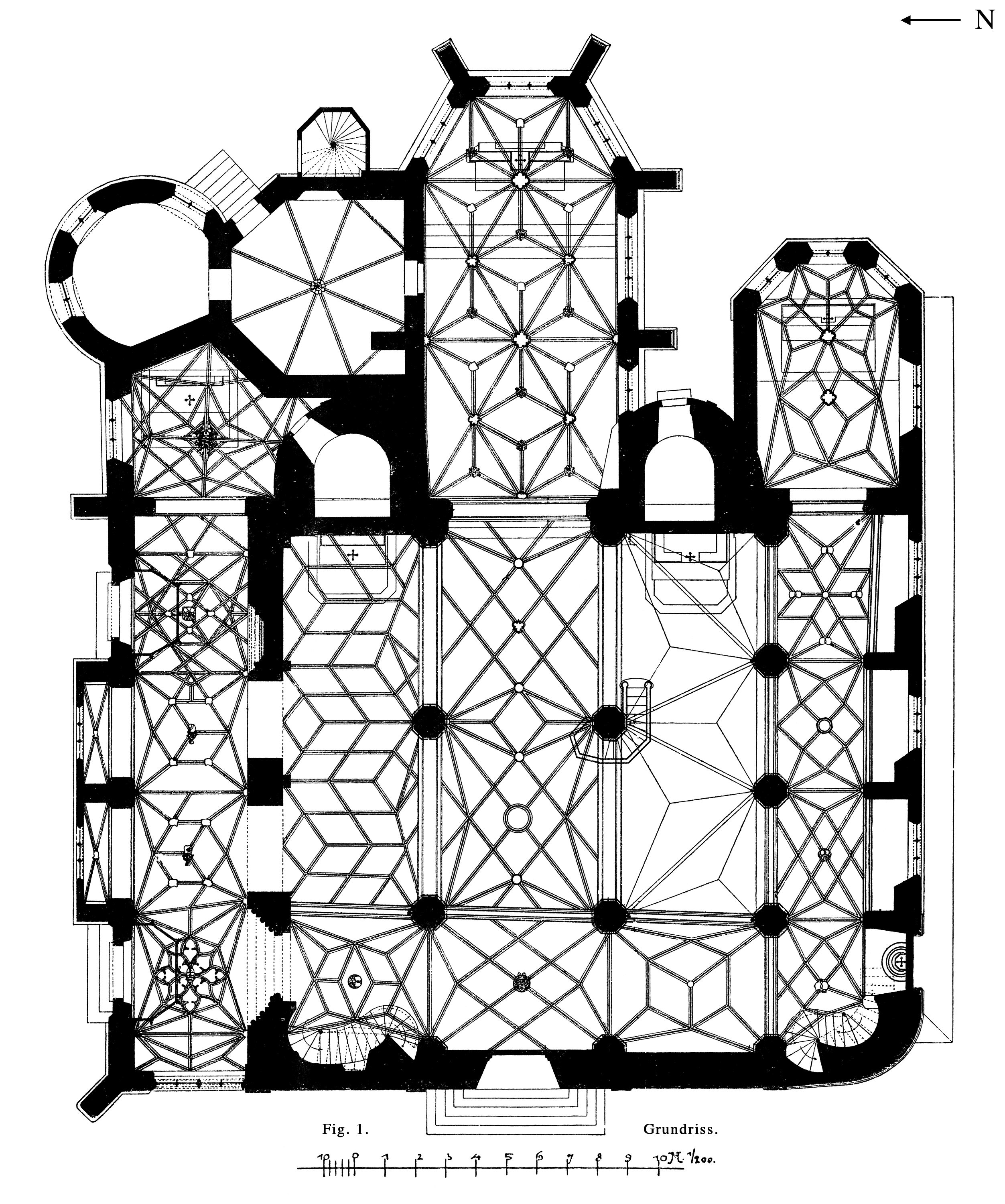 Frankfurt on the Main: Leonhardskirche (Leonard's church), floor plan